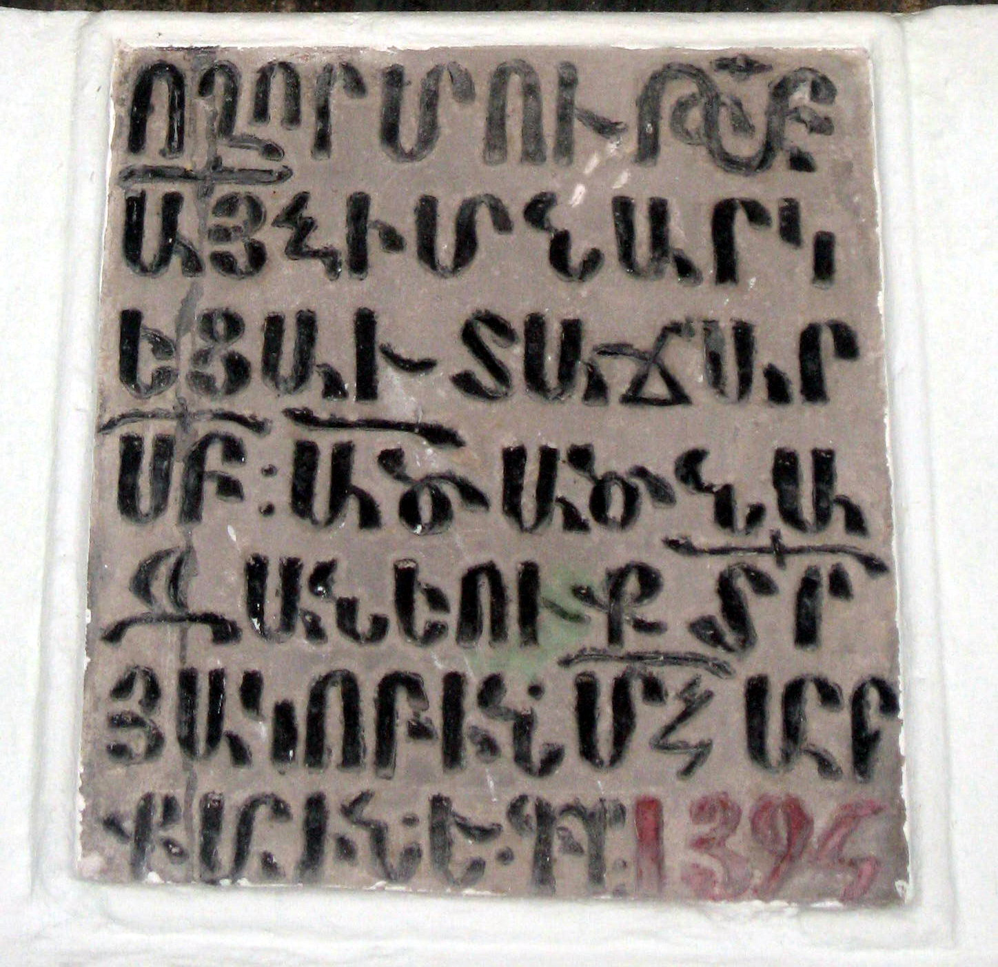 Armenian church in Iași